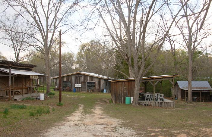 The Loachapoka Historic District Rivers Langley